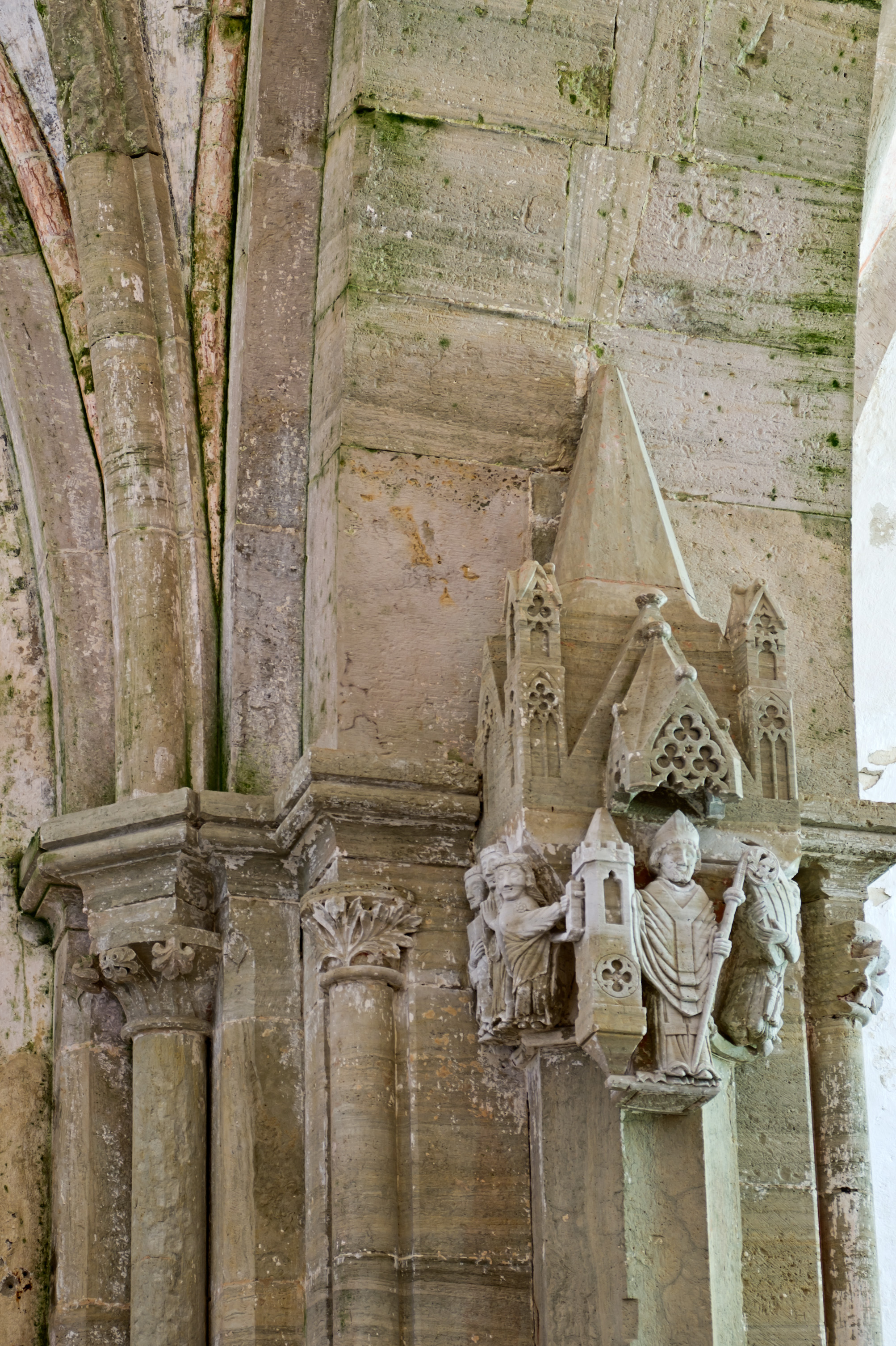 St Nicholas' group on the south side of chancel arch in Karja church. View from east.